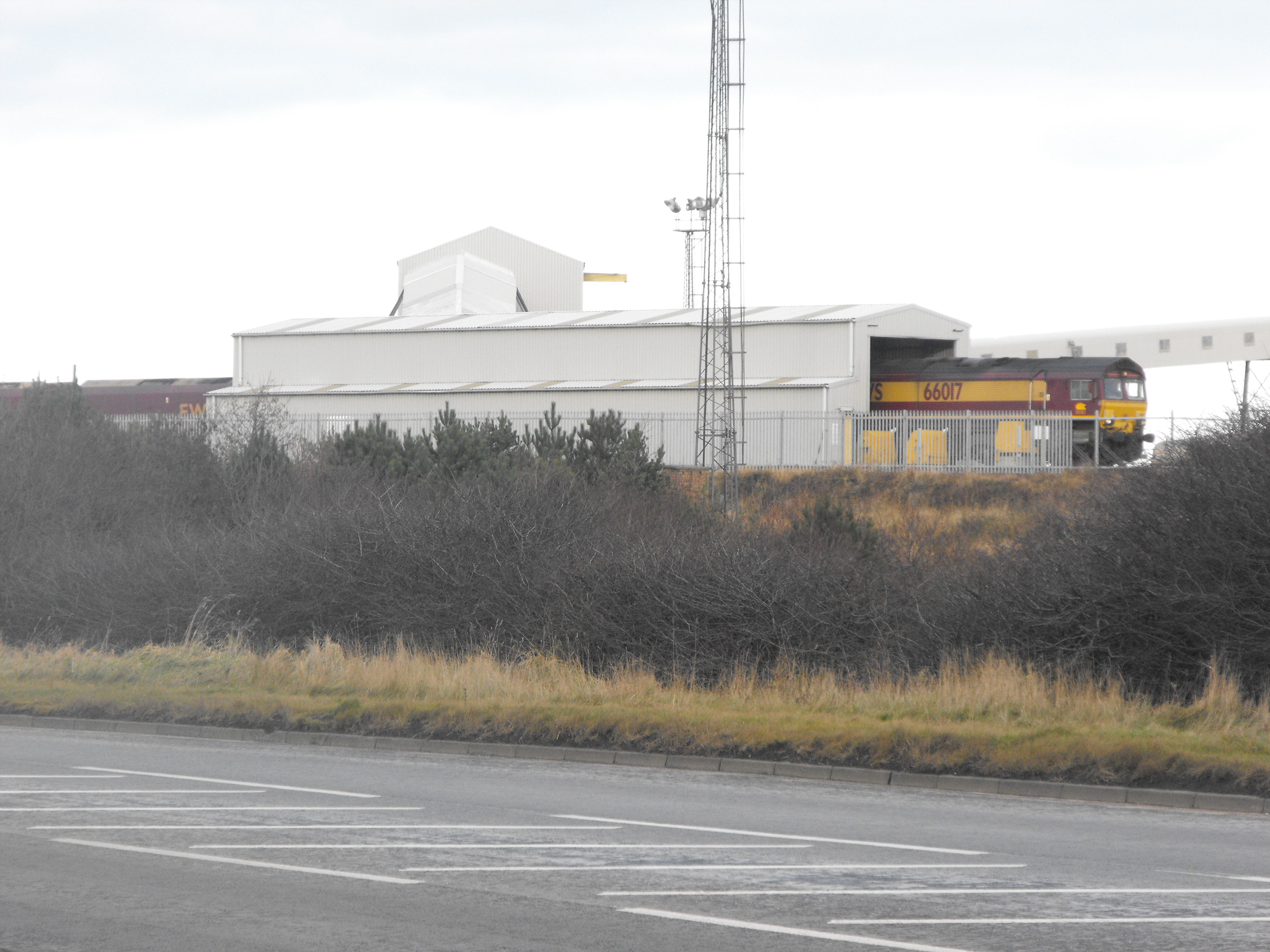 A delivery of coal to